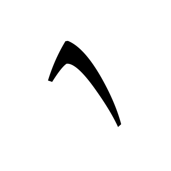 Balinese letters, called cecek.